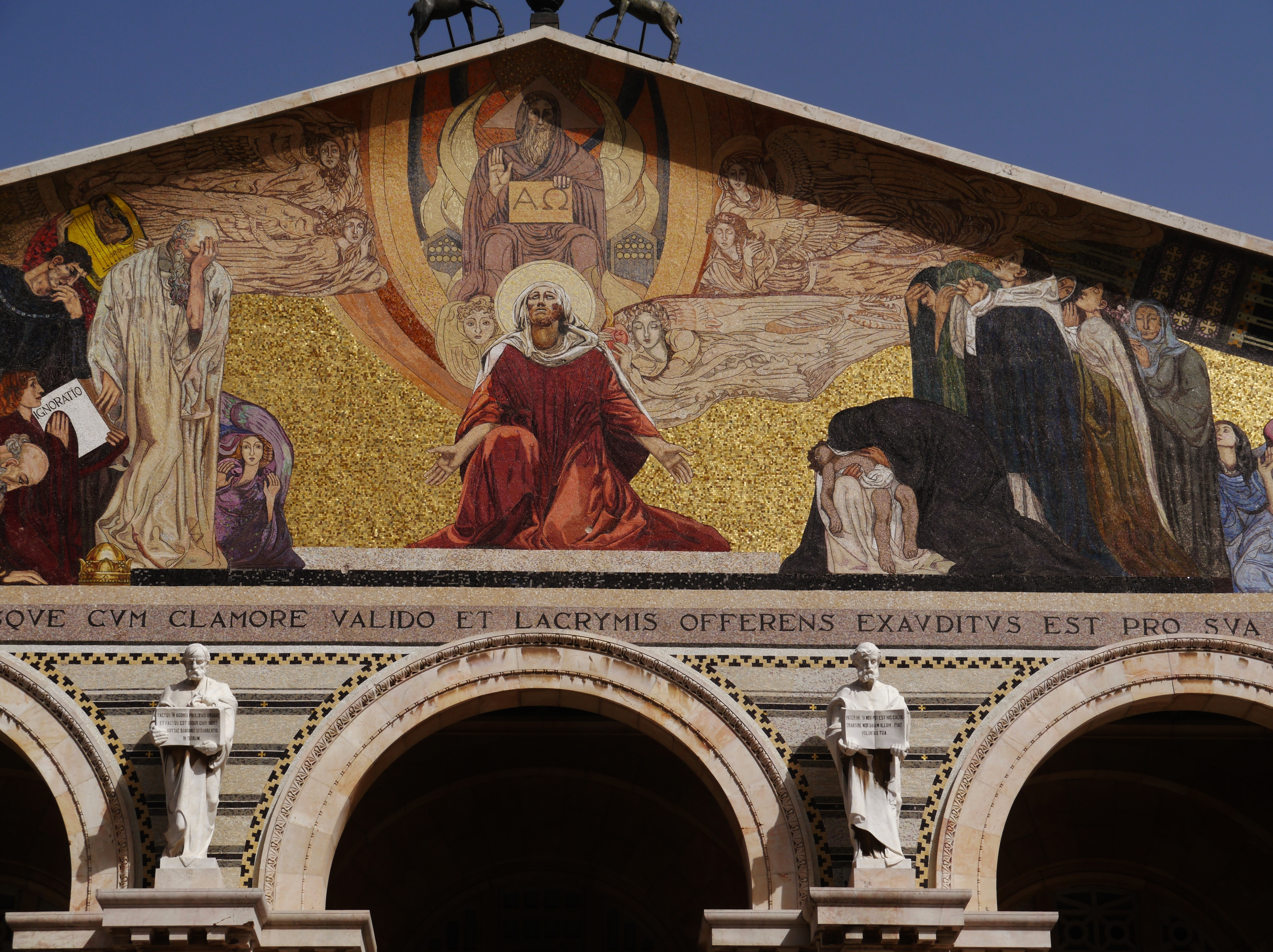 Gable of the Basilica of All Nations, Jerusalem, Israel